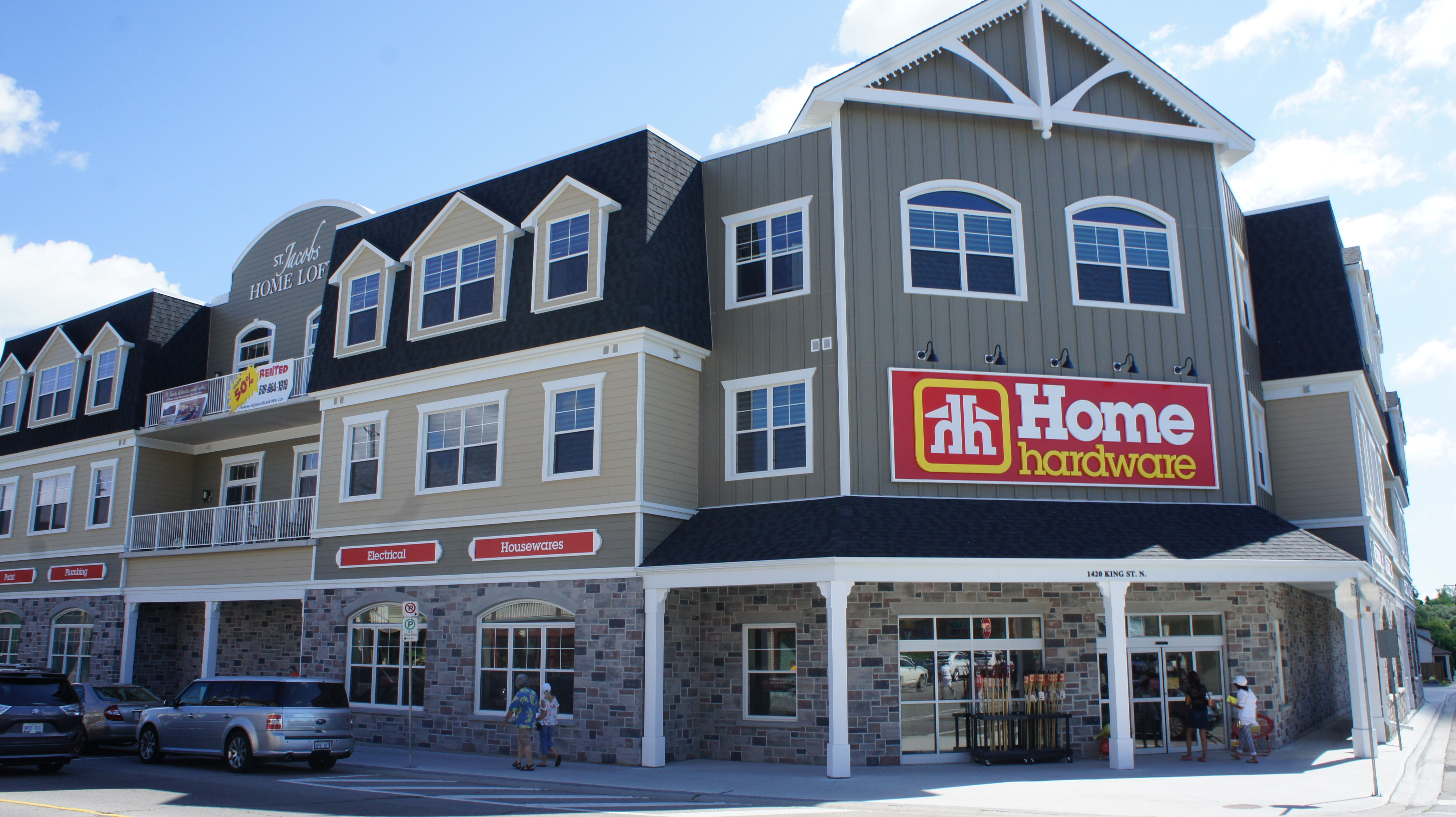 Home Hardware - St Jacobs